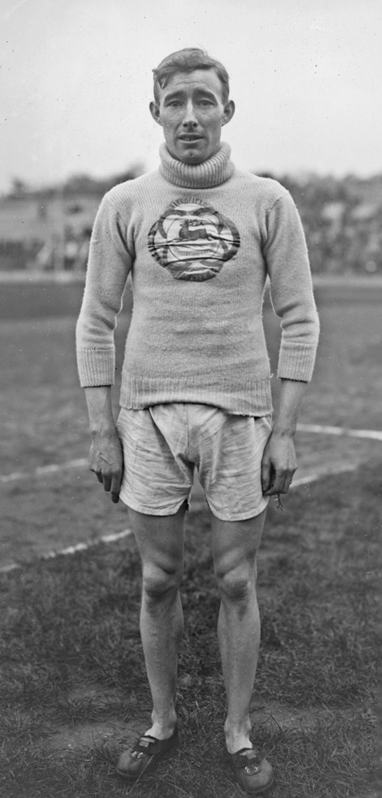 [W. James] Hatton [coureur anglais, stade Pershing, le 8 octobre 1922]